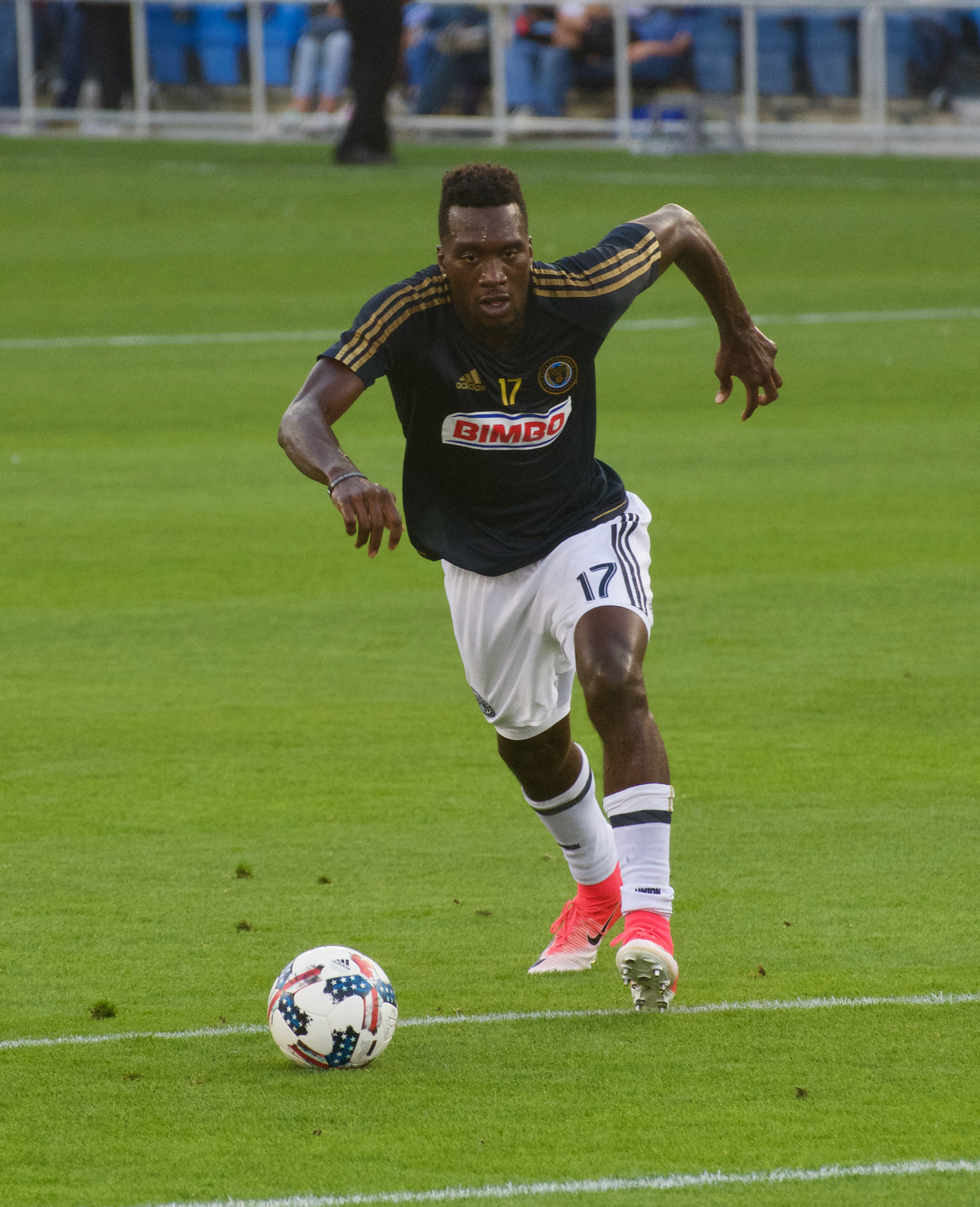 C. J. Sapong warming up for Philadelphia Union at Avaya Stadium on 19 August 2017.